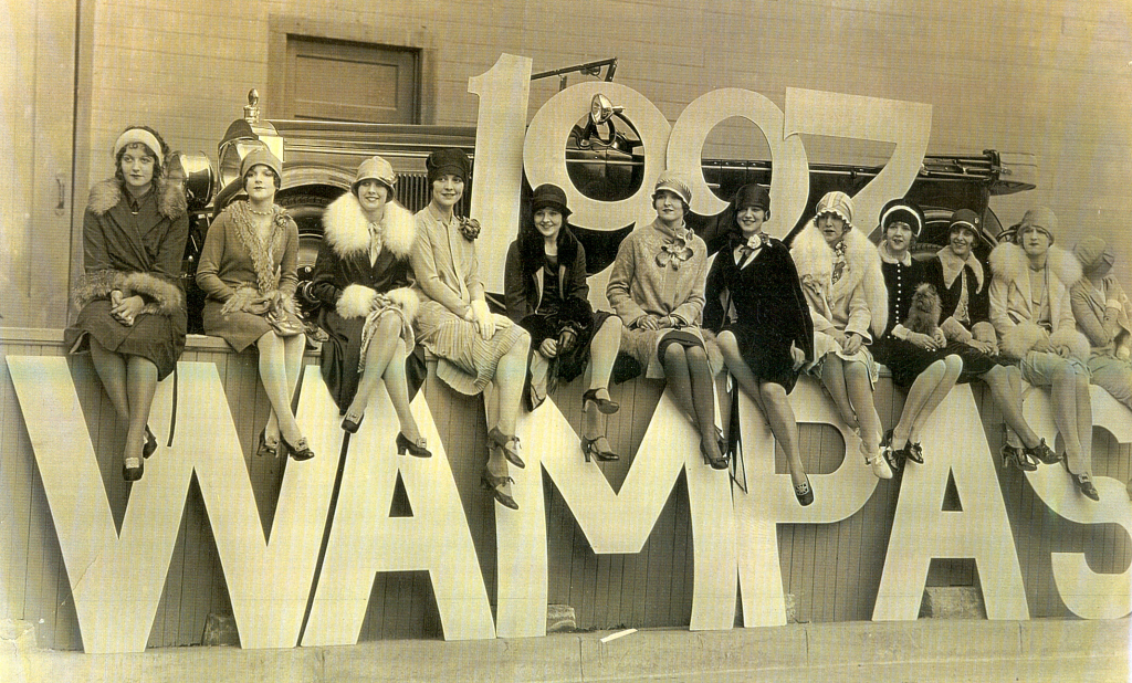 Annual selection of thirteen young and talented women made by WAMPAS. The actress Sally Phipps is the second woman from the left to the right.